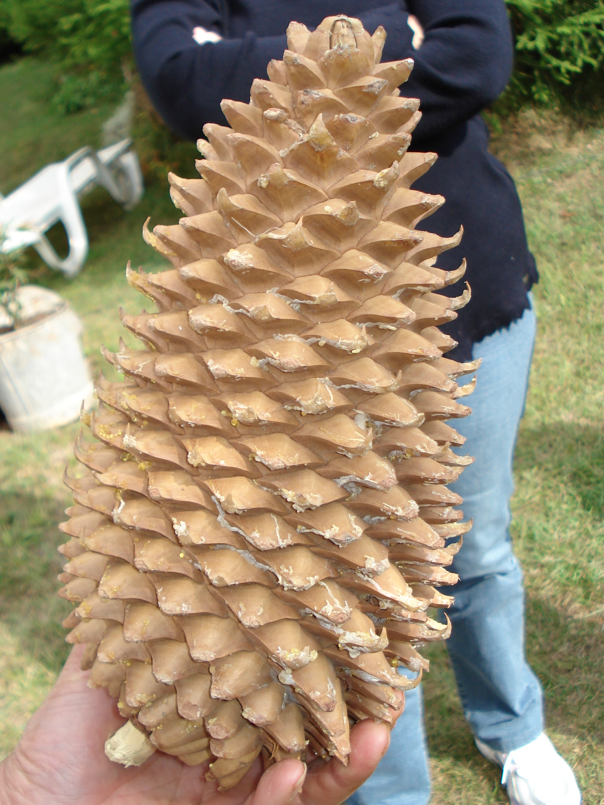 Coulter Pine - Big-cone